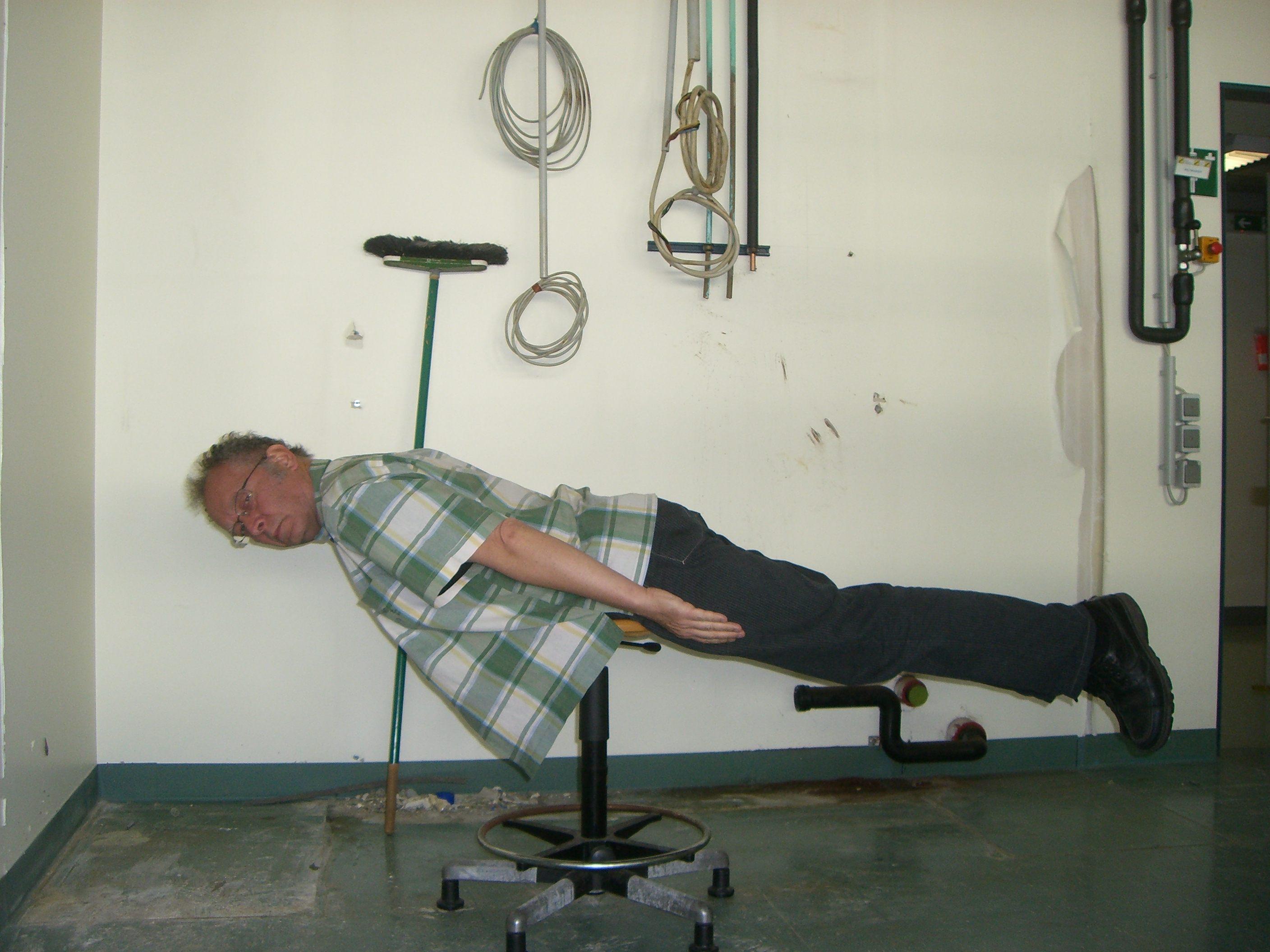 After all equipment being removed from our laboratory I had the idea for planking